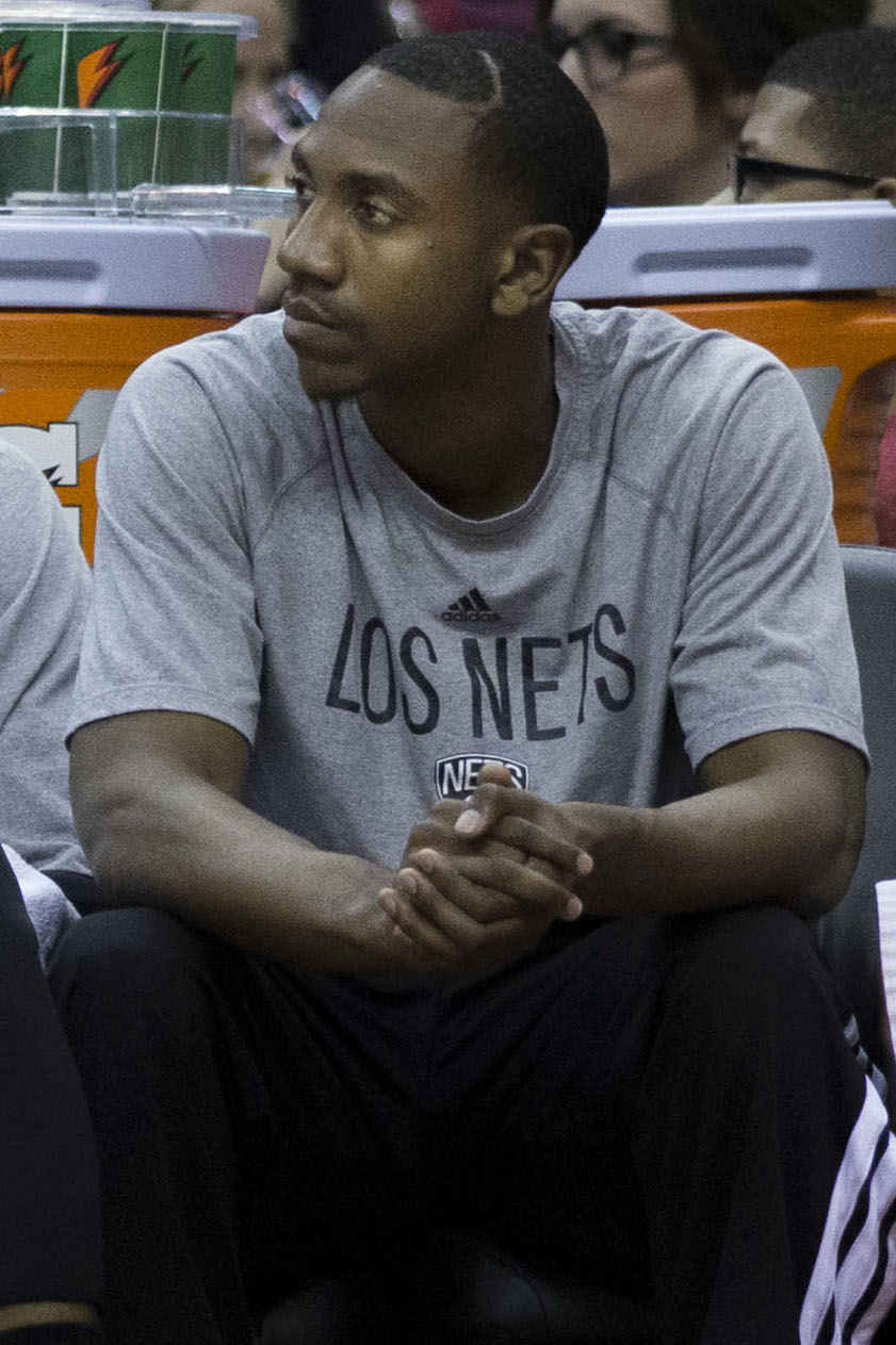 Nets at Wizards 3/15/14